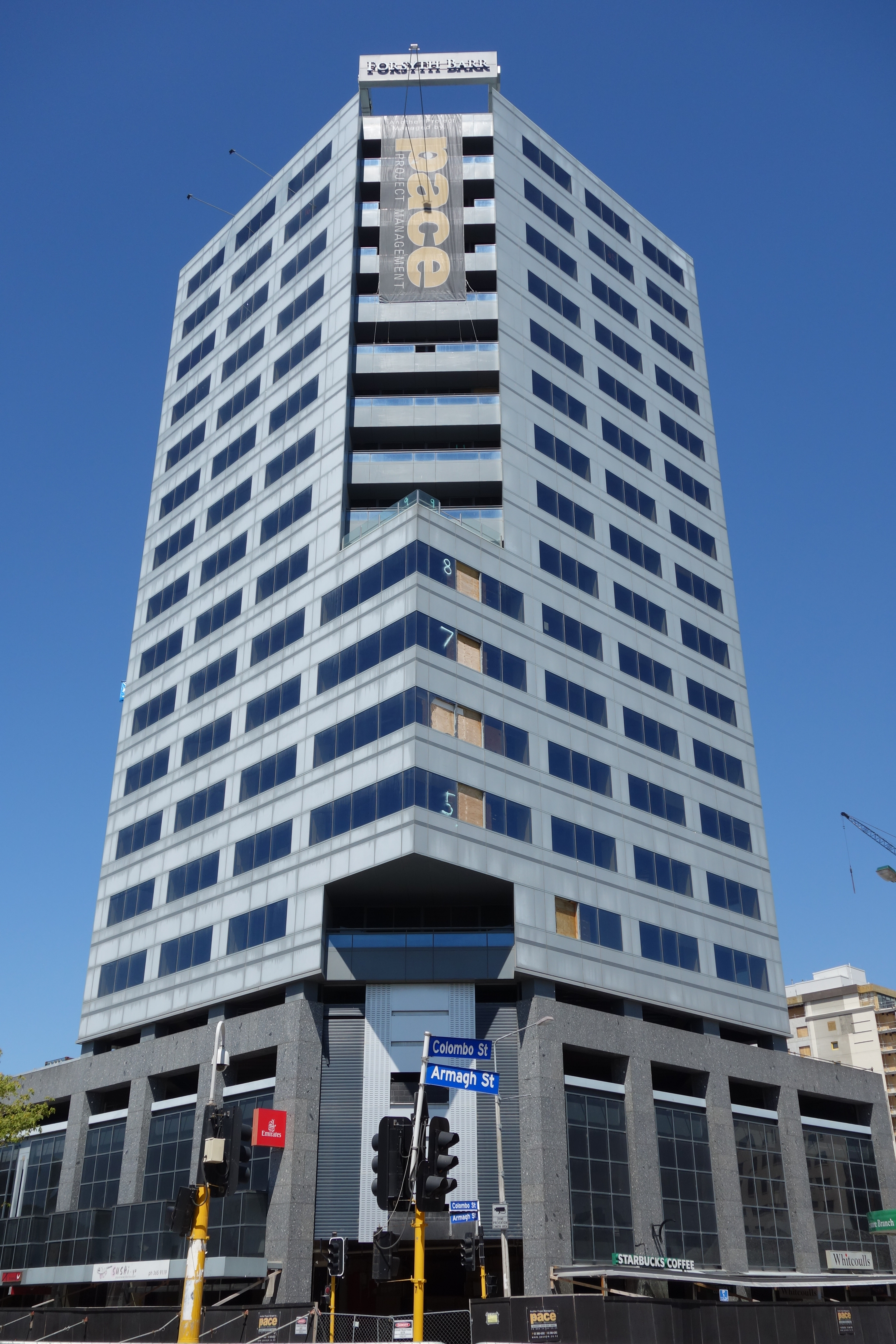 Forsyth Barr Building, Christchurch, in February 2013.